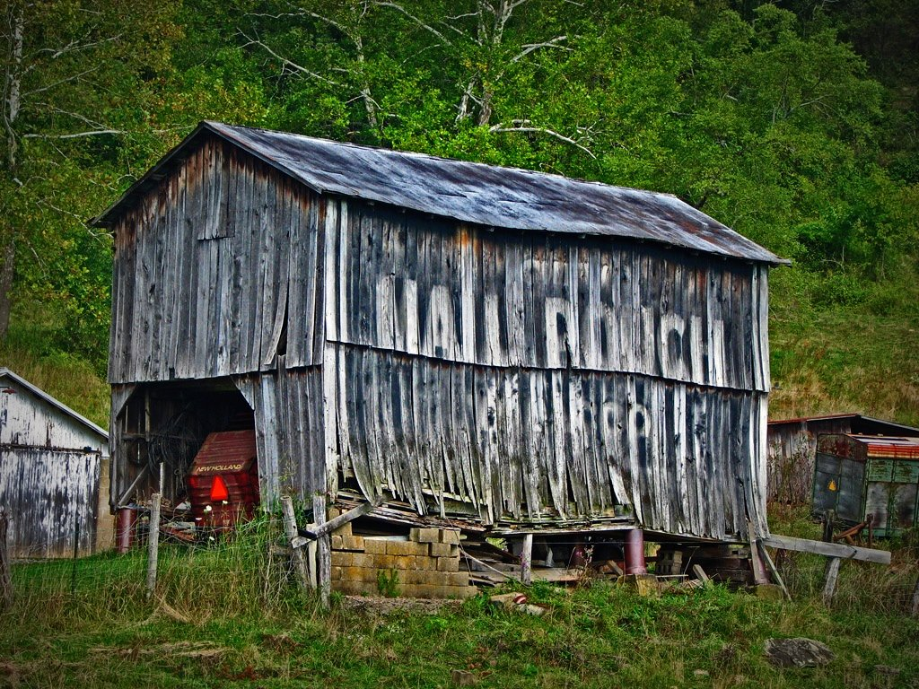 Dilapidated barn on Sumner Road north of Chester in northern Chester Township, Meigs County, Ohio, United States.